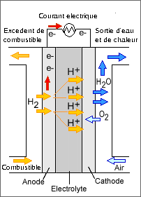 PEMFC scheme in french language, based on english language scheme in WP en